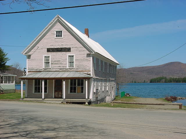 Author:self